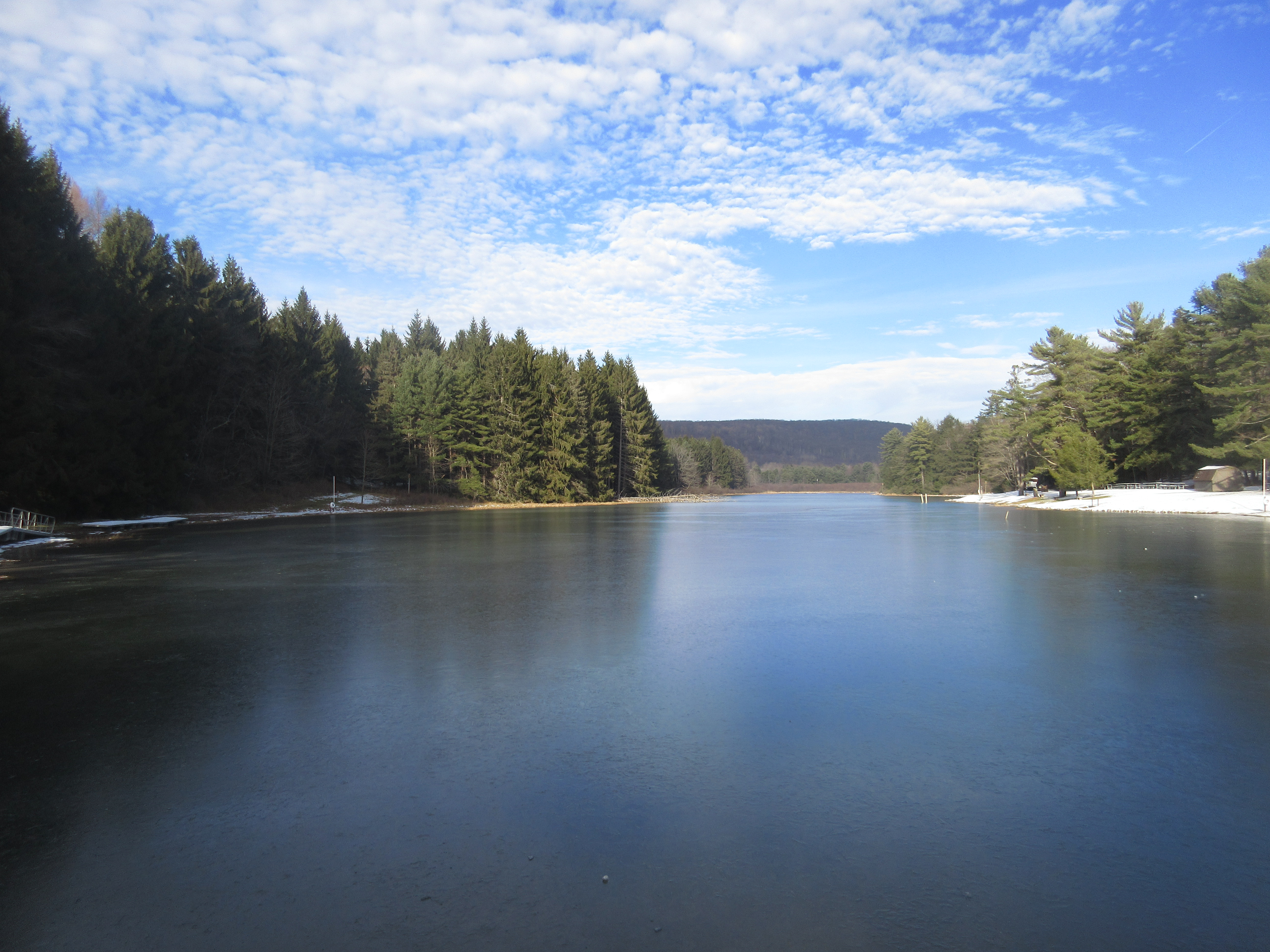 Depicted place: New Germany State Park